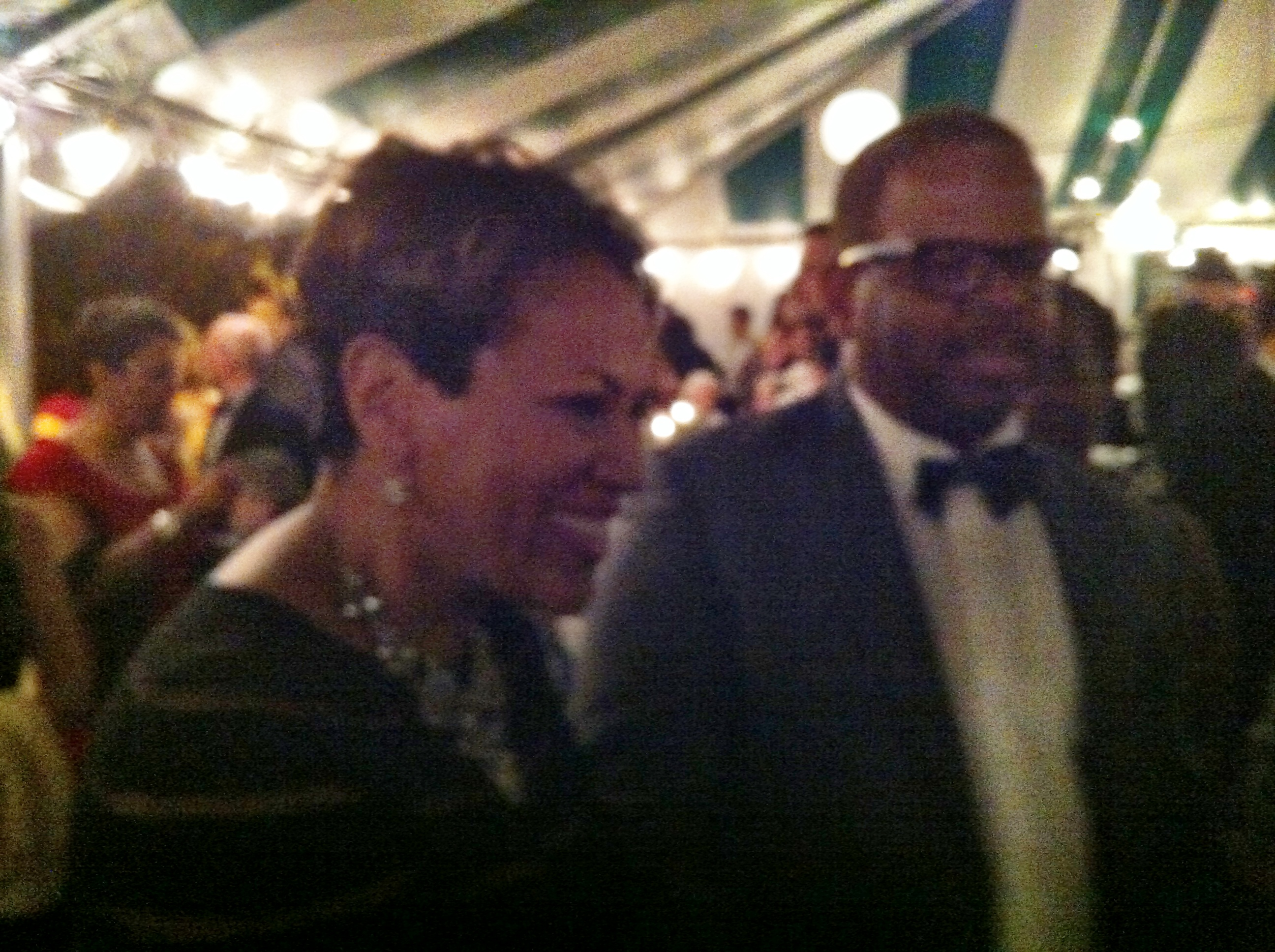 I took this photo of Terence Blanchard and his wife at the Opera Theatre of Saint Louis' after party on the campus of Webster University following the world premiere of Blanchard's Champion on 15 June 2013.